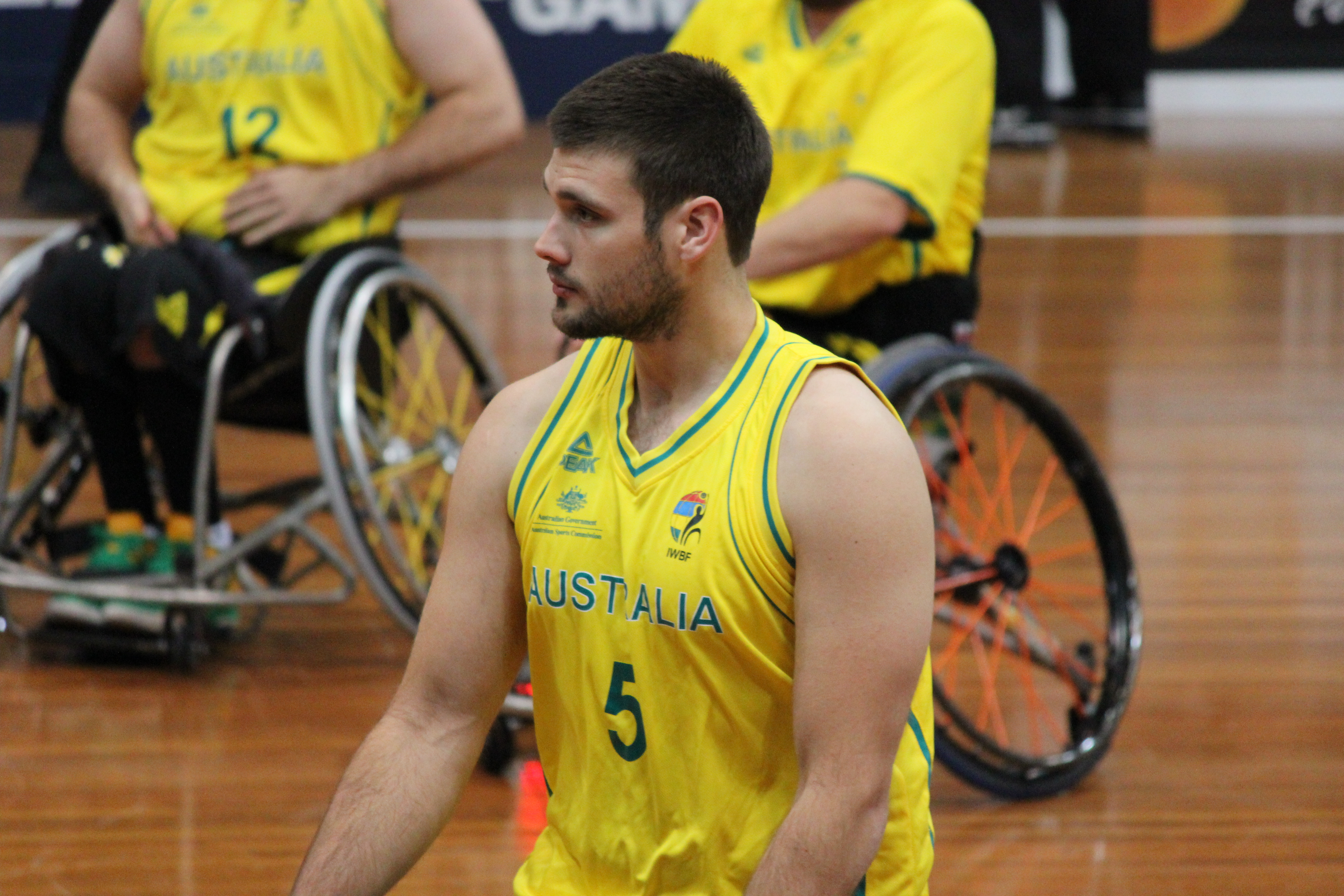 65–51 Australia men;s 19 July 2012 win over the Great Britain men's national wheelchair basketball team at Sydney;s Olympic Park. Bill Latham. no 12 is Grant Mizens.